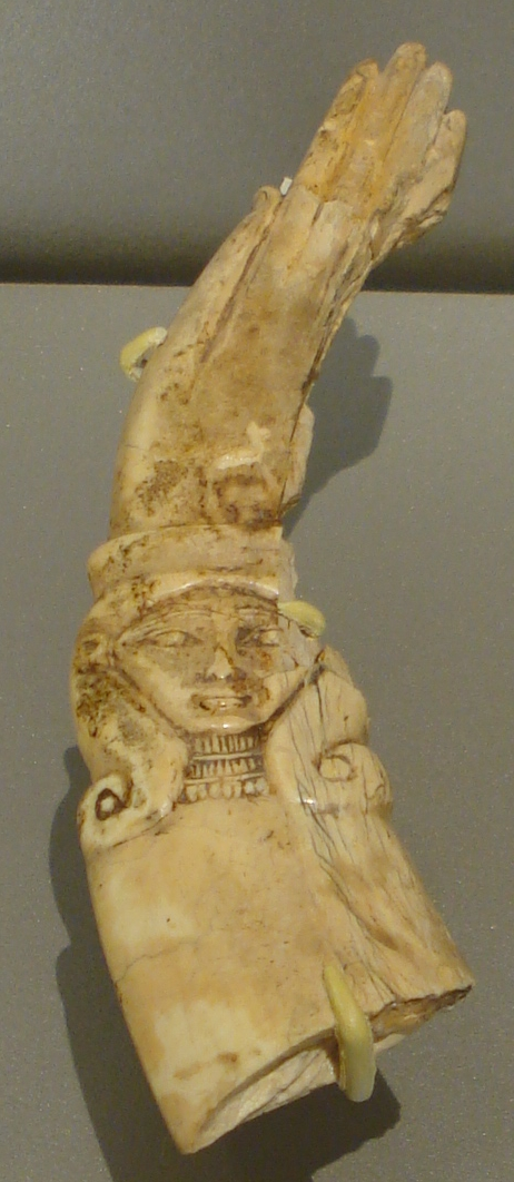 Hippopotamus ivory castanets. From the collection of the Brooklyn Museum.